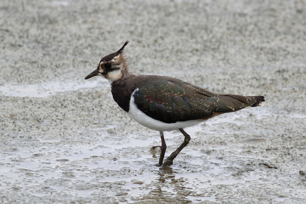 A Northern Lapwing at Rutland Water, Rutland, England.